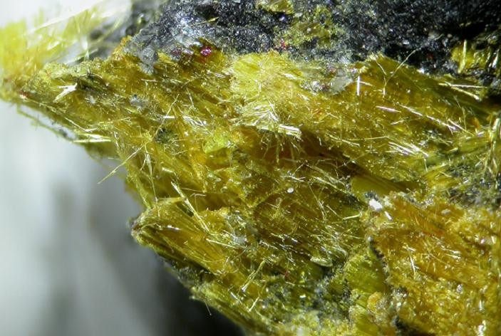 Wakabayashilite Locality: Khaidarkan (Chaidarkan) Sb-Hg deposit, Fergana Valley, Alai (Alay) Range, Osh Oblast, Kyrgyzstan (Locality at ) Field of view 10 mm. Specimen and photo Leon Hupperichs.